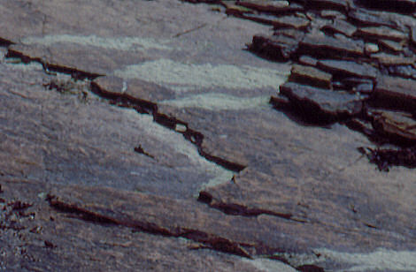 Stromness flags at Warbeth Beach / Orkney original copyright 1999 Wolfgang Schlick (aka Islandhopper) shot taken in 1999 full sized image published before from the authors archive Islandhopper 14:47, 30 July 2006 (UTC)